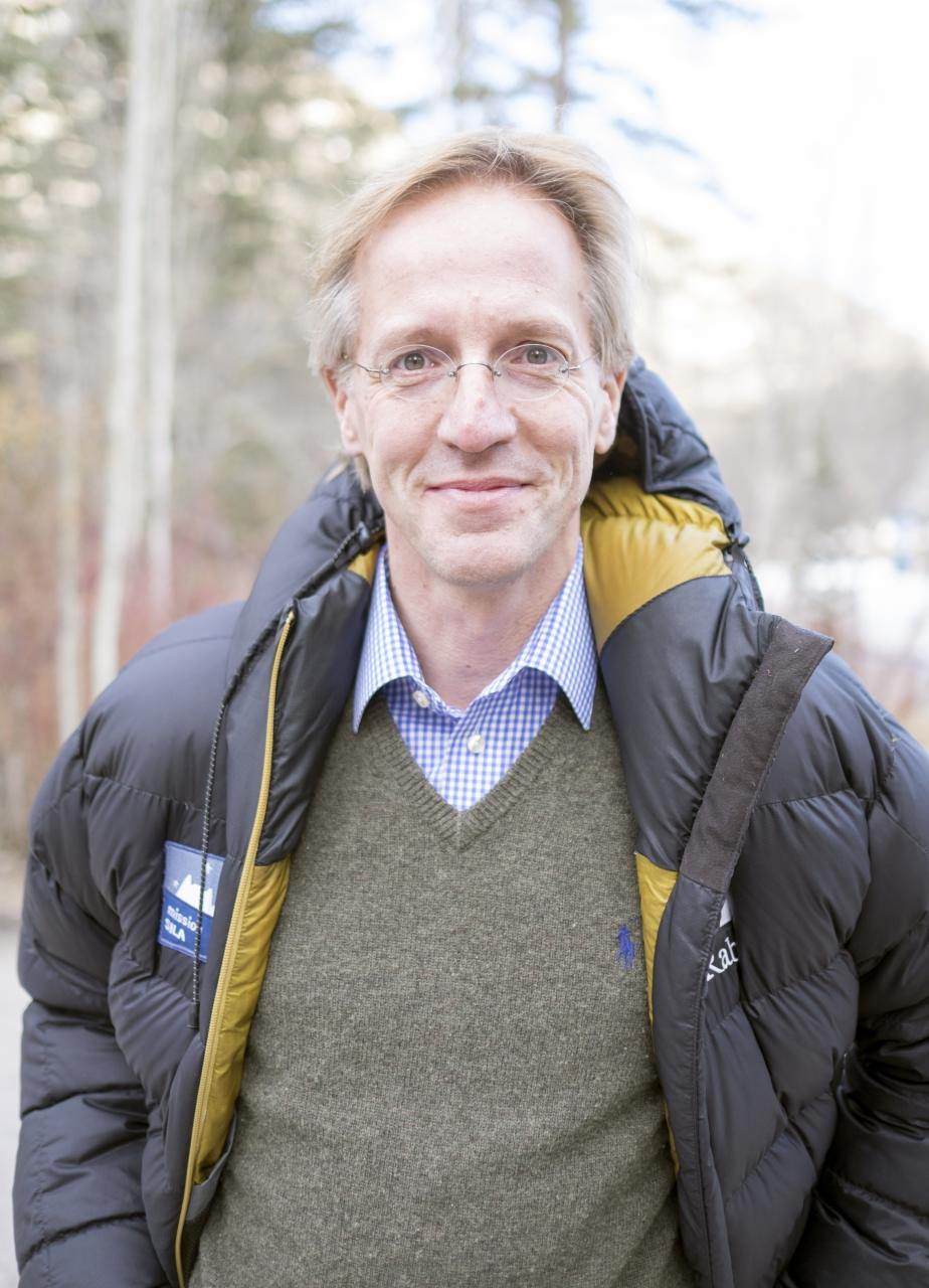 Robbert Dijkgraaf